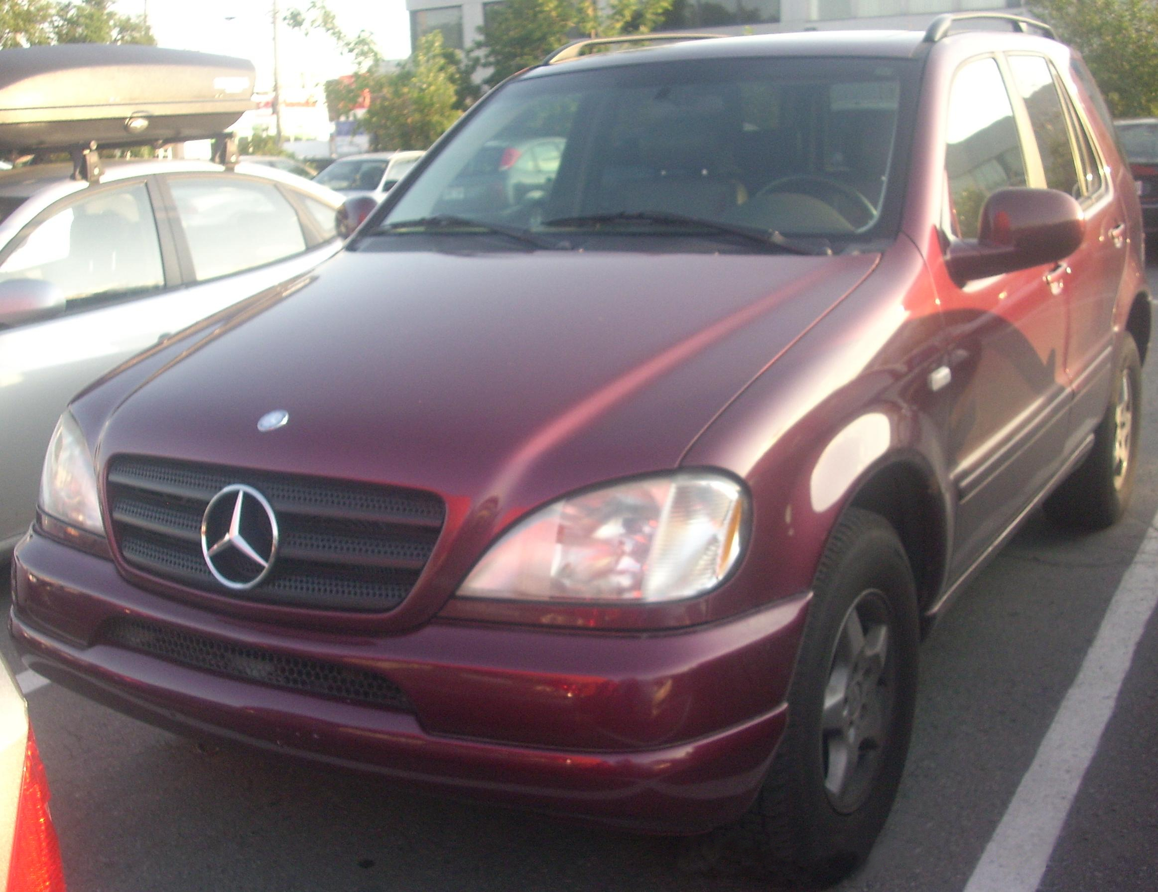 1998-2001 Mercedes-Benz M-Class photographed in Montreal, Quebec, Canada at Gibeau Orange Julep.